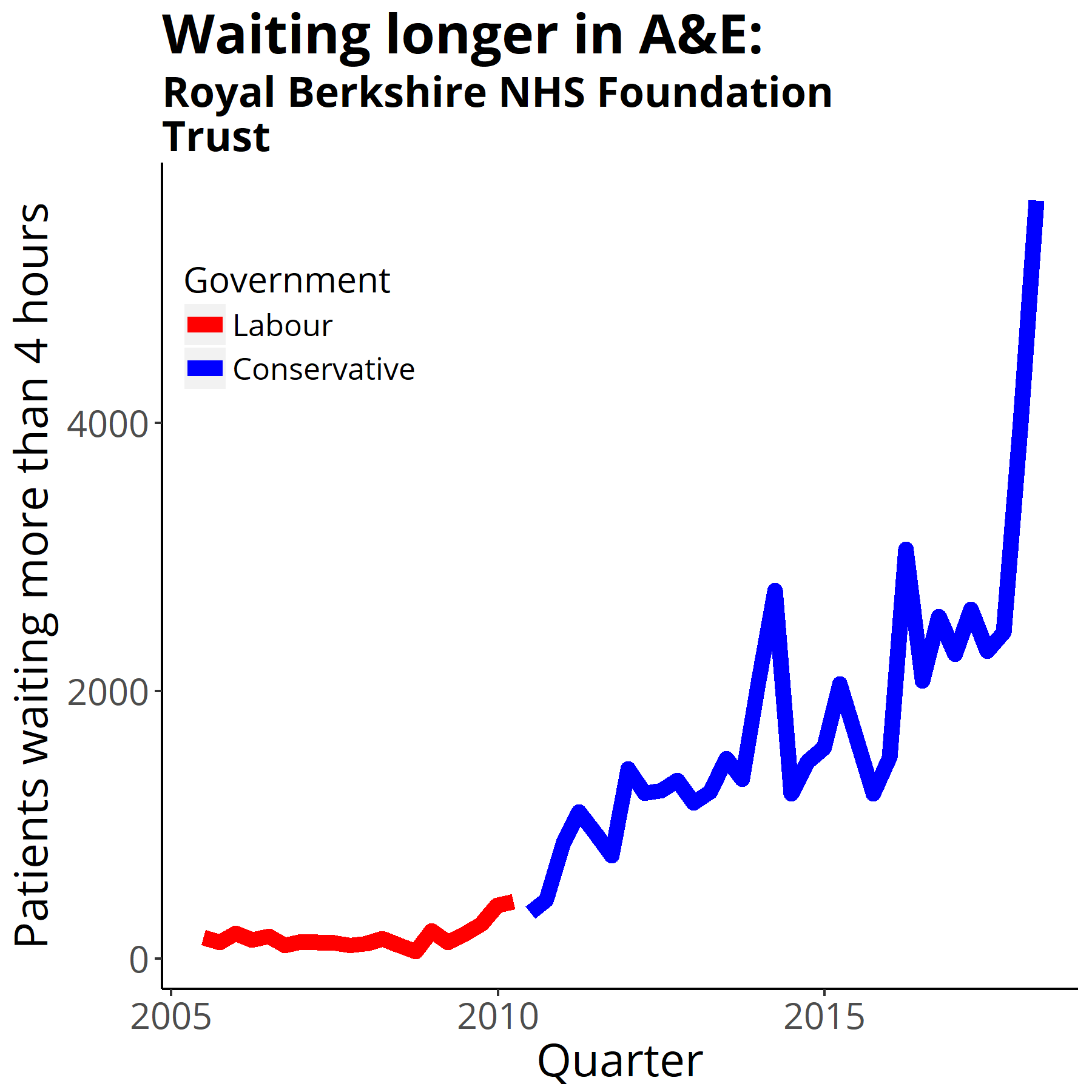 Four-hour target in the emergency department quarterly figures from NHS England Data from